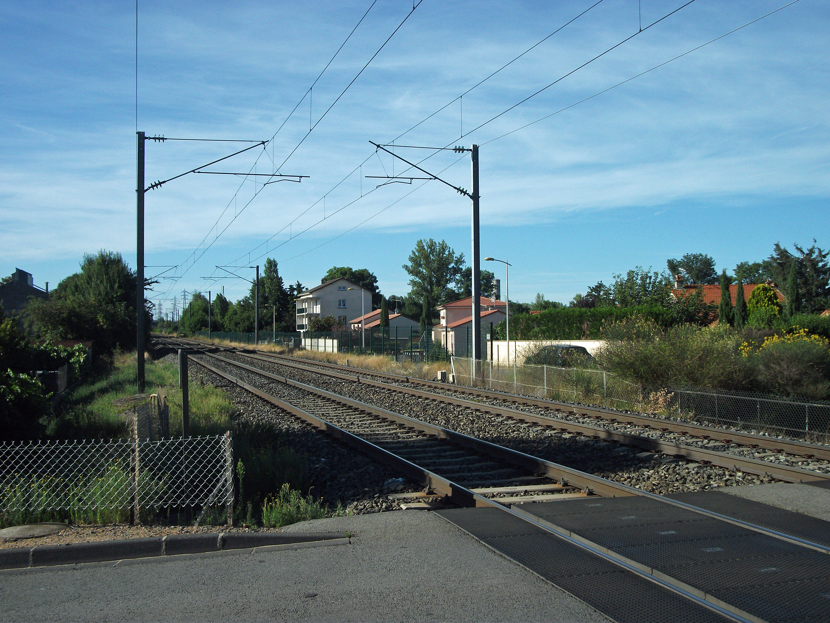 Saint-Germain-des-Fossés–Nîmes railway in Ménétrol, Puy-de-Dôme, France, direction Riom [11533]